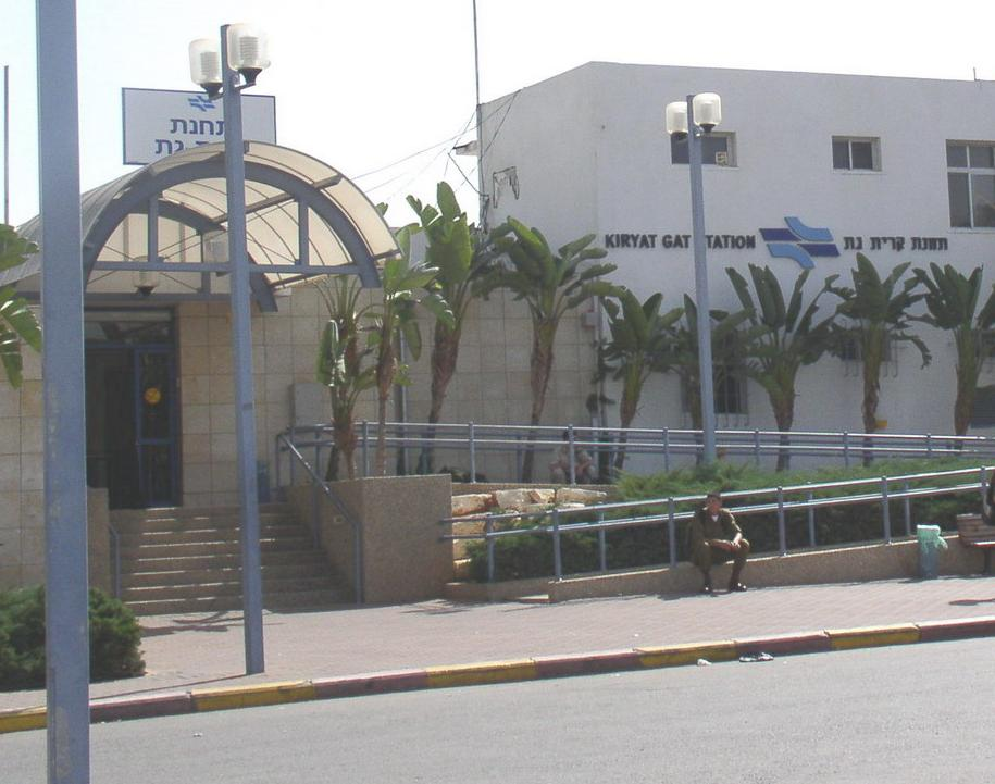 Kiryat Gat Railway Station